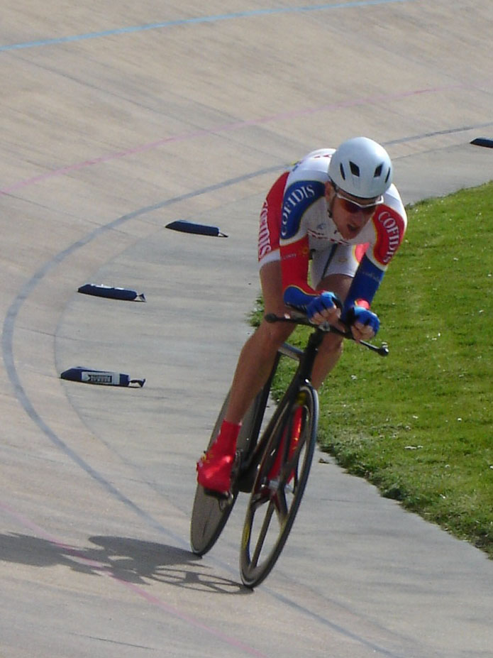 Bradley Wiggins.